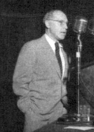 H. J. Muller speaking at the 1952 World Science Fiction Convention